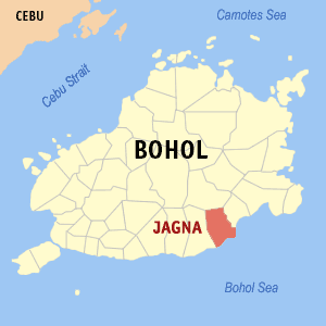 Map of Bohol showing the location of Jagna